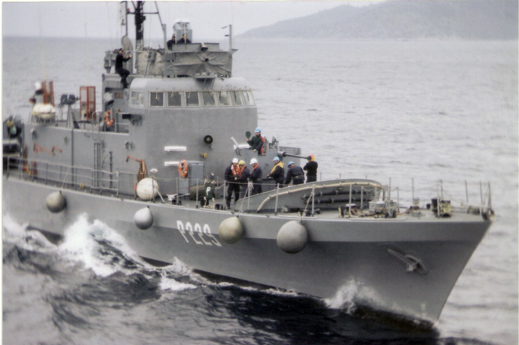 HS Tolmi (P-229) getting ready for underway mail transfer